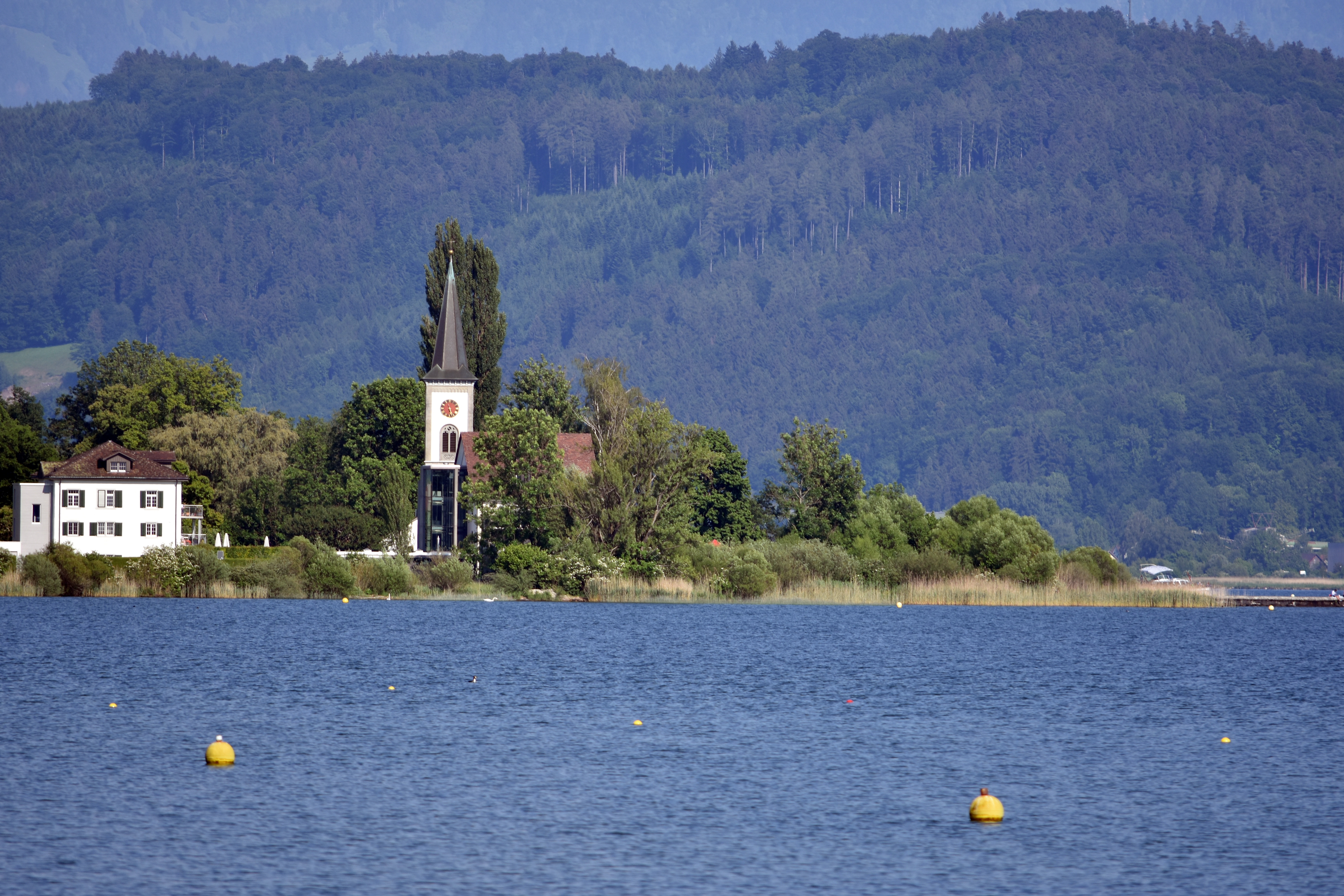 Obersee (upper Lake Zurich) and St. Martin Busskirch, as seen from Holzbrücke (wooden bridge) in Rapperswil (Switzerland), Buechberg in the background.